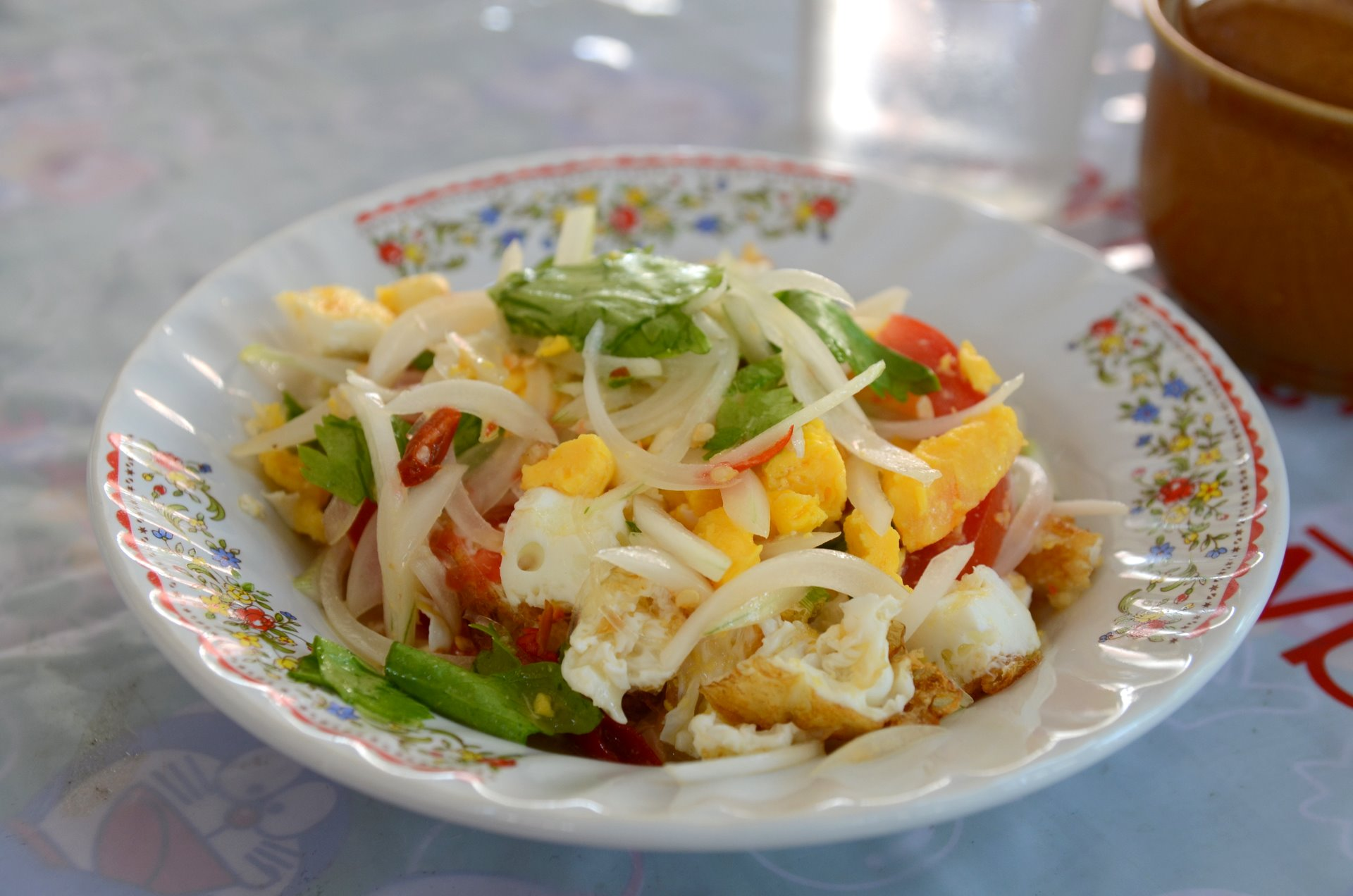 Yam khai dao (Thai script: ยำไข่ดาว) is a salad (yam) made with fried egg (khai dao). The ingredients in this salad are: roughly chopped fried egg which has been fried in vegetable oil, onions, tomato, bird's eye chillies, Chinese celery (khuen chai), lime juice, fish sauce and sugar.